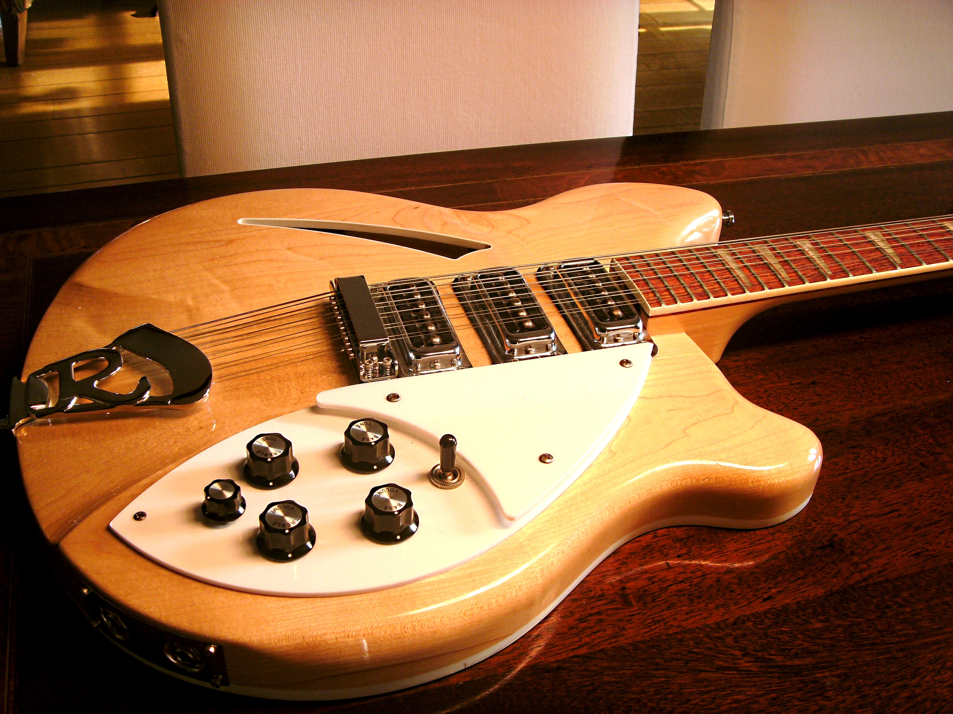 The body of a 1999 Rickenbacker 370/12 Mapleglo, with the distinctive R-tailpiece, 5-knob control and bubinga fretboard